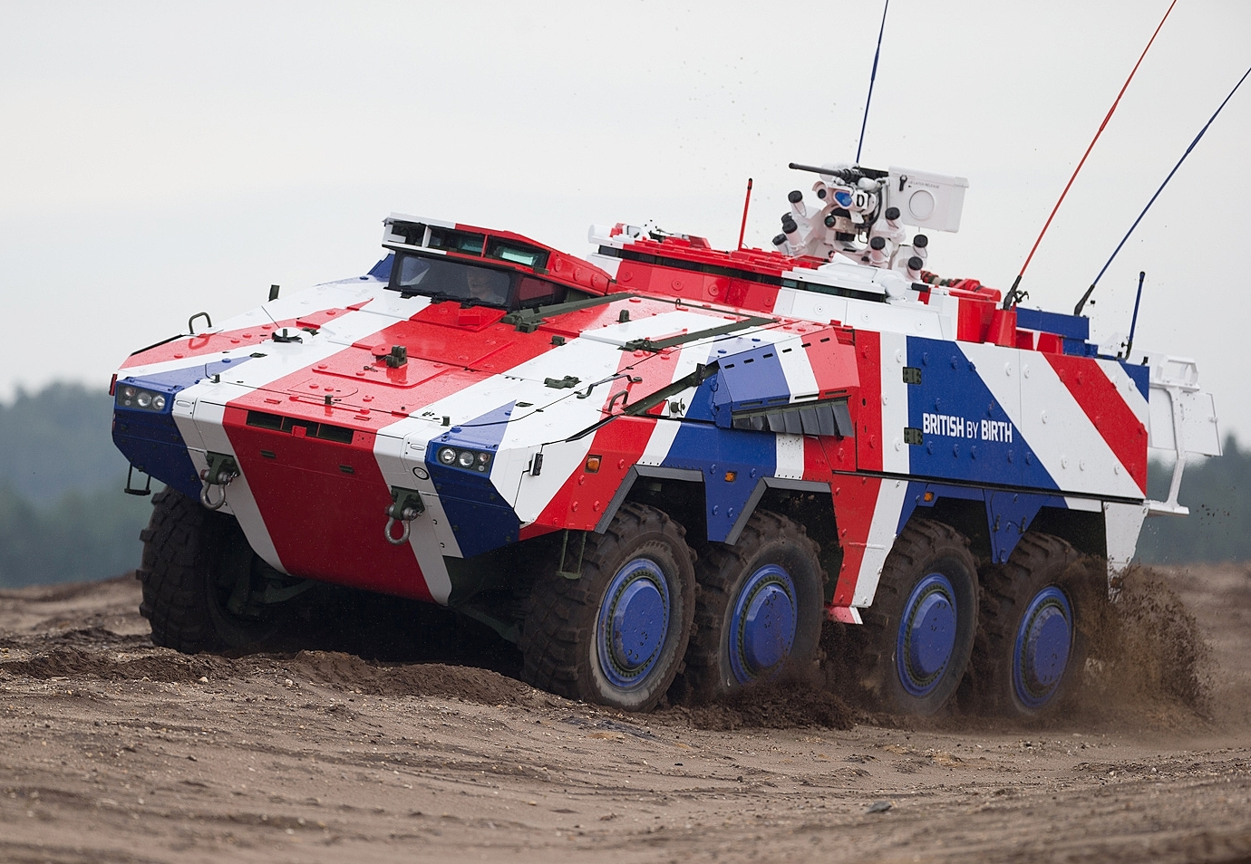 Boxer is currently being offered to meet the UK’s Mechanised Infantry Vehicle (MIV) requirement.